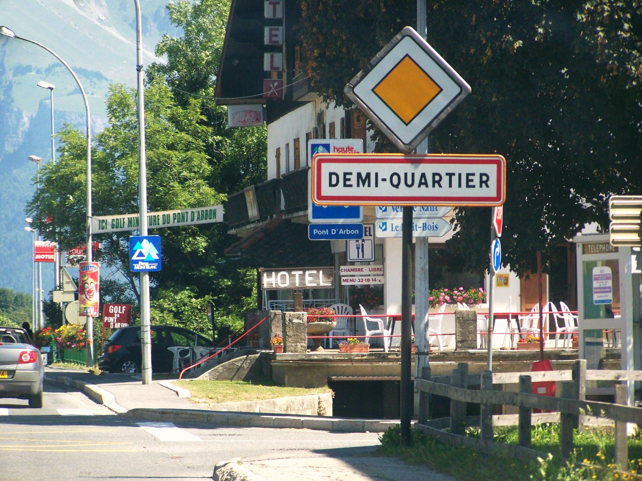 Sign welcoming visitors to the French commune of Demi-Quartier near Megève in Haute-Savoie.